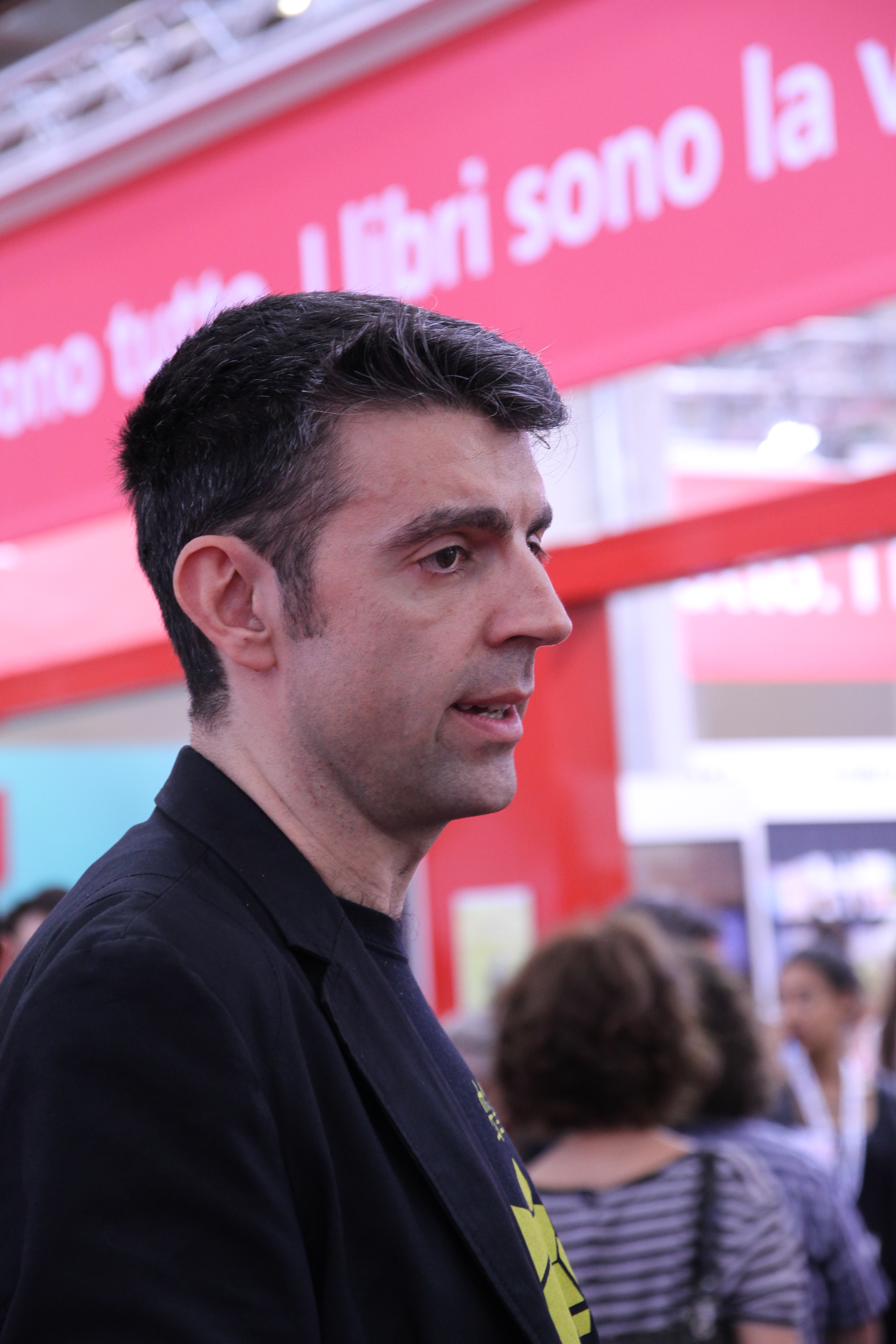 Foto Marco Battista, Elisabetta Milone